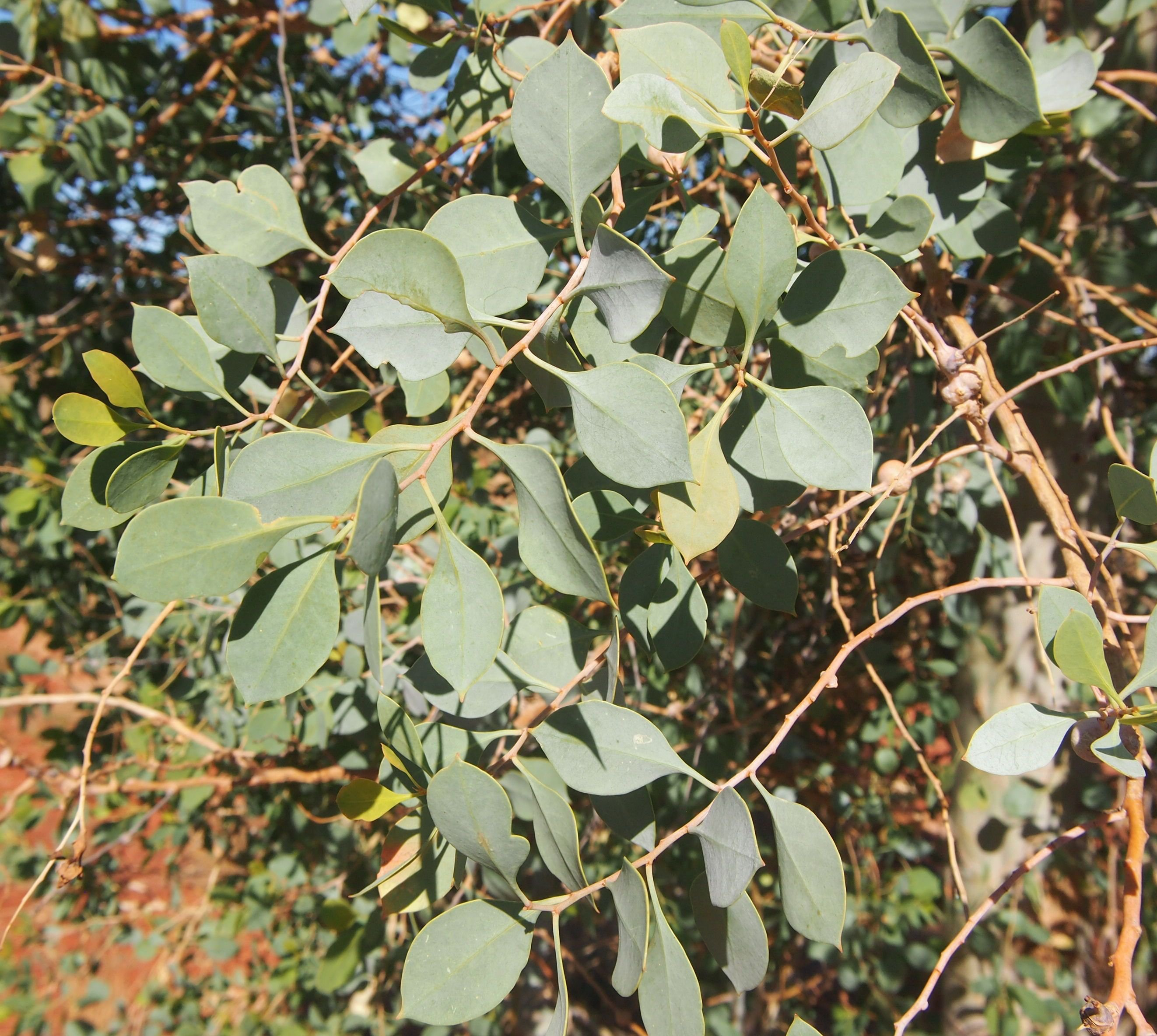 Codonocarpus cotinifolius foliage